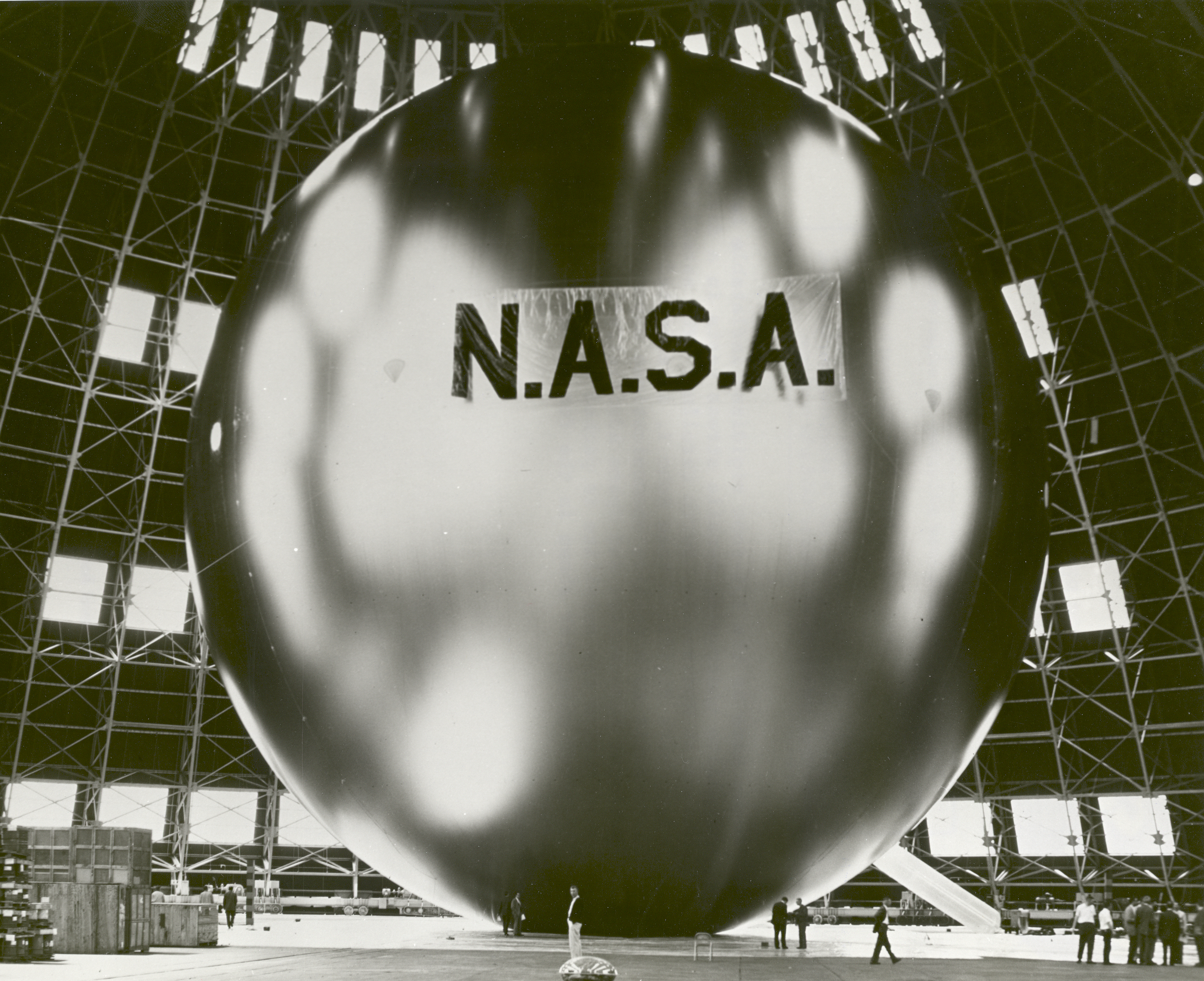 Shown here is the 135-foot rigidized inflatable balloon satellite undergoing tensile stress test in a dirigible hangar at Weekesville, North Carolina. The satellite, 50 times more rigidized than Echo I was placed into orbit as a passive communications experiment by NASA on January 25, 1964. When folded satellite is packed into the 41-inch diameter canister shown in the foreground.